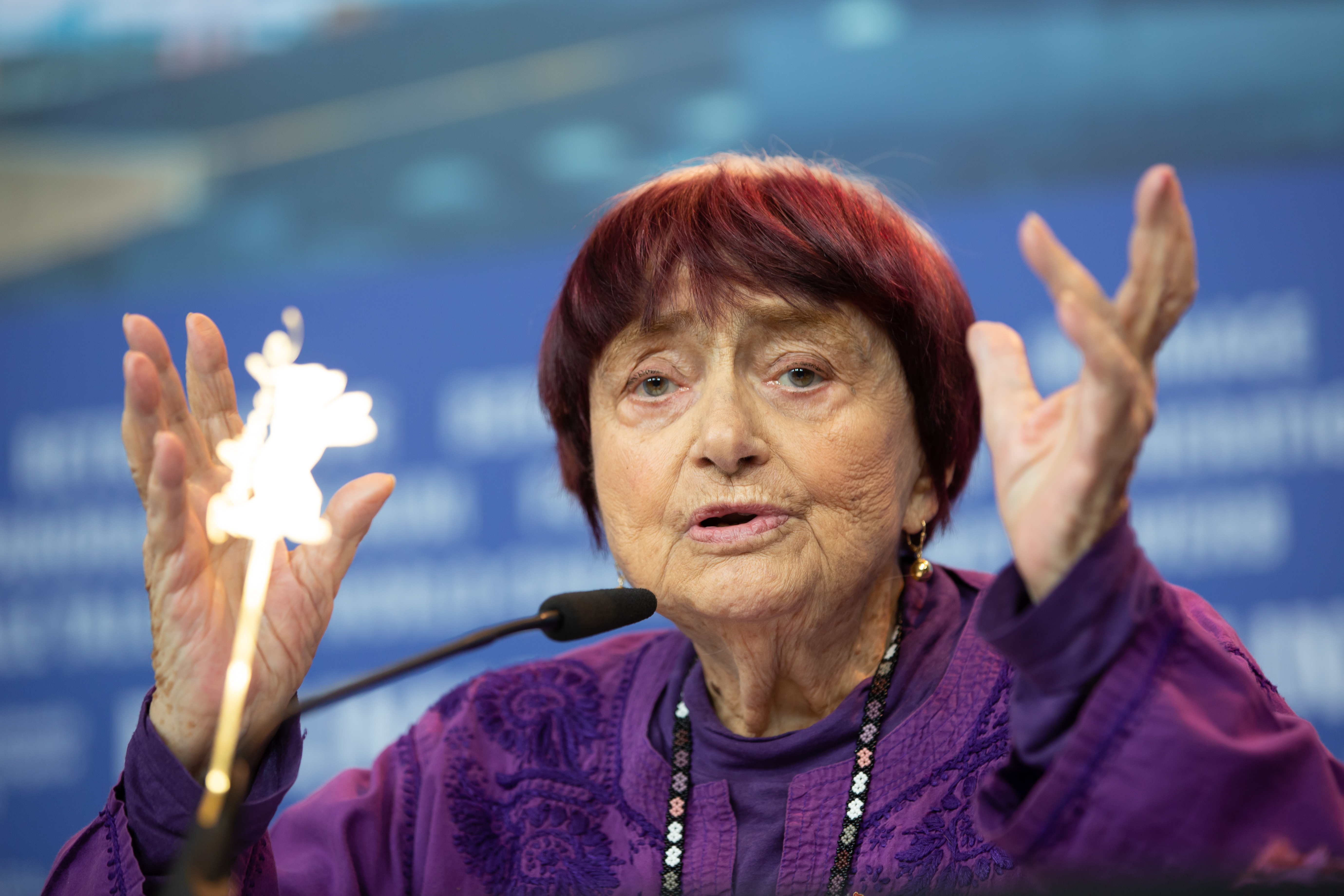 Film director Agnes Varda at the Berlinale 2019